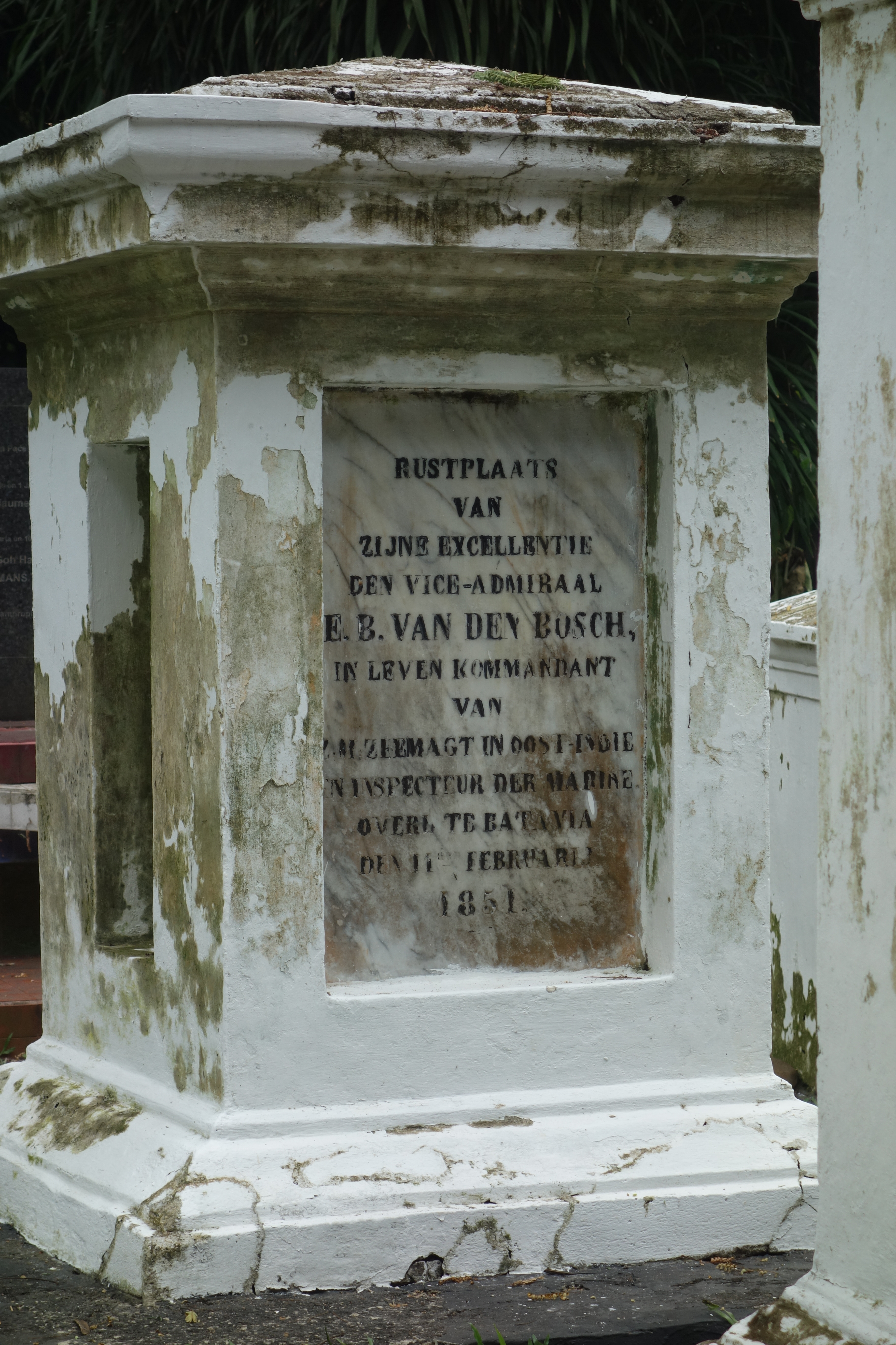 Old Dutch cemetery at Bogor Botanical Gardens (Java, Indonesia), 2018. Grave of Dutch admiral E.B. van den Bosch. Text reads: Rustplaats van Zijne Excellentie den Vice-Admiraal E.B. van den Bosch, in leven kommandant van z.h. zeemagt in Oost-Indie en inspecteur der marine. Overl. te Batavia den 11den Februarij 1851